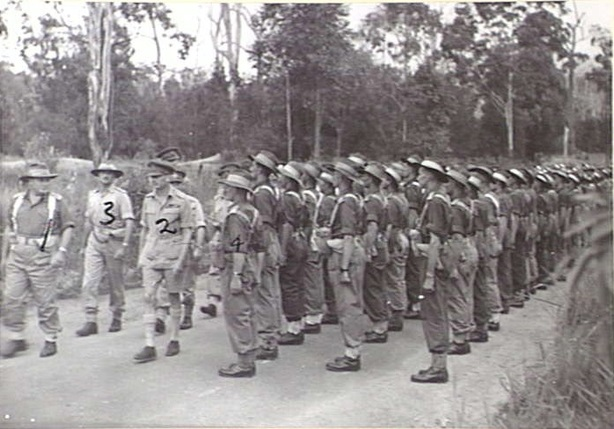 Troops from the 2/9th Field Regiment on parade at Wondecla, Queensland, on 14 February 1945. They are being inspected by the Duke of Gloucester, the Governor General of Australia